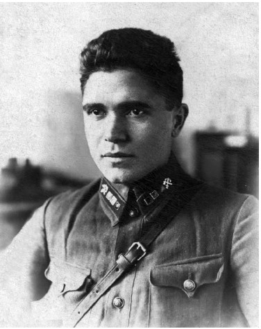 Abdurahman Fatalibeyli in Sovet army